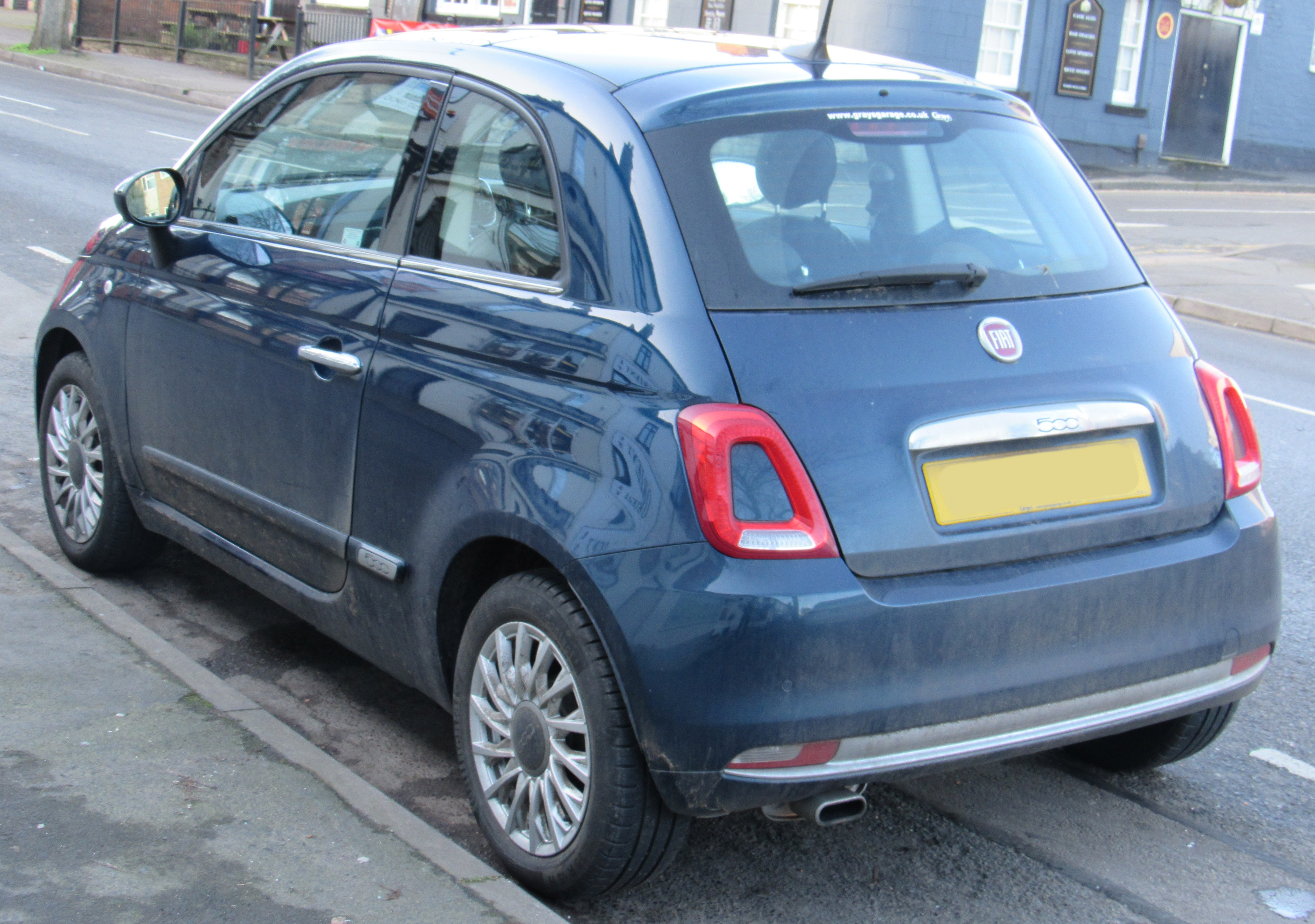 2016 Fiat 500 Lounge 1.2 Rear Taken in Warwick